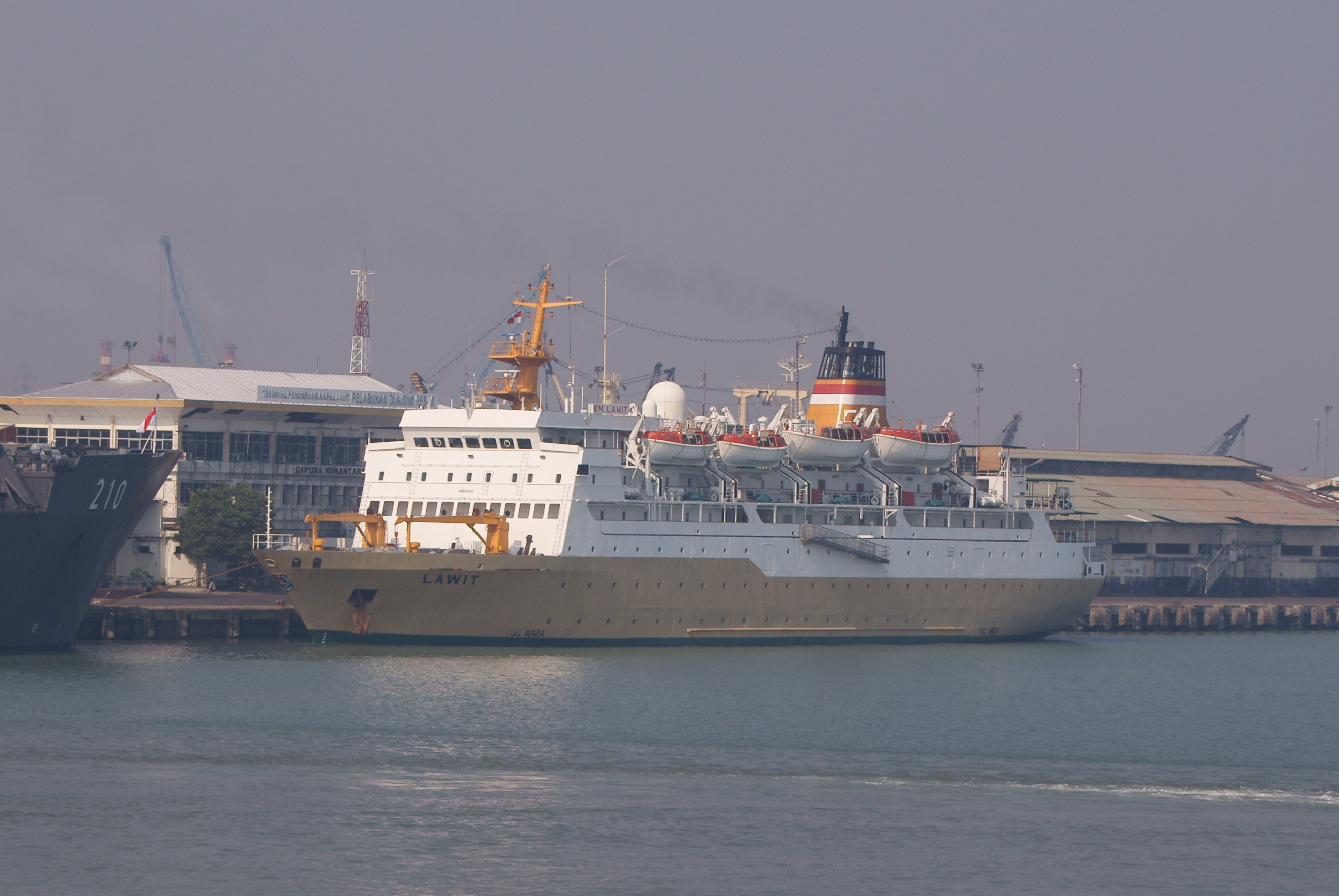 KM Lawit, Tanjung Perak Port, Surabaya